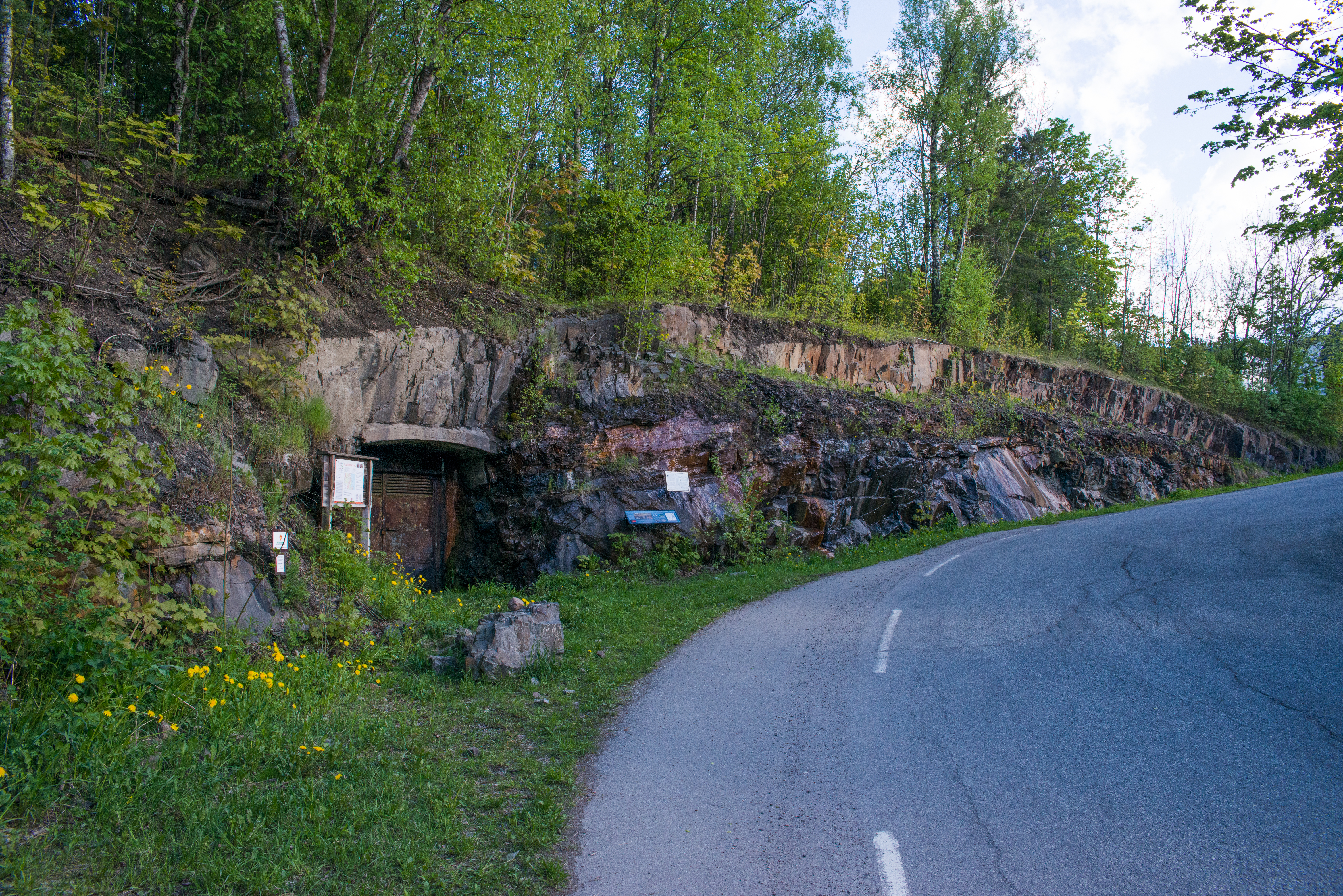 Slemmestad nature protection site, Nyveien, Slemmestad, Røyken, Norway